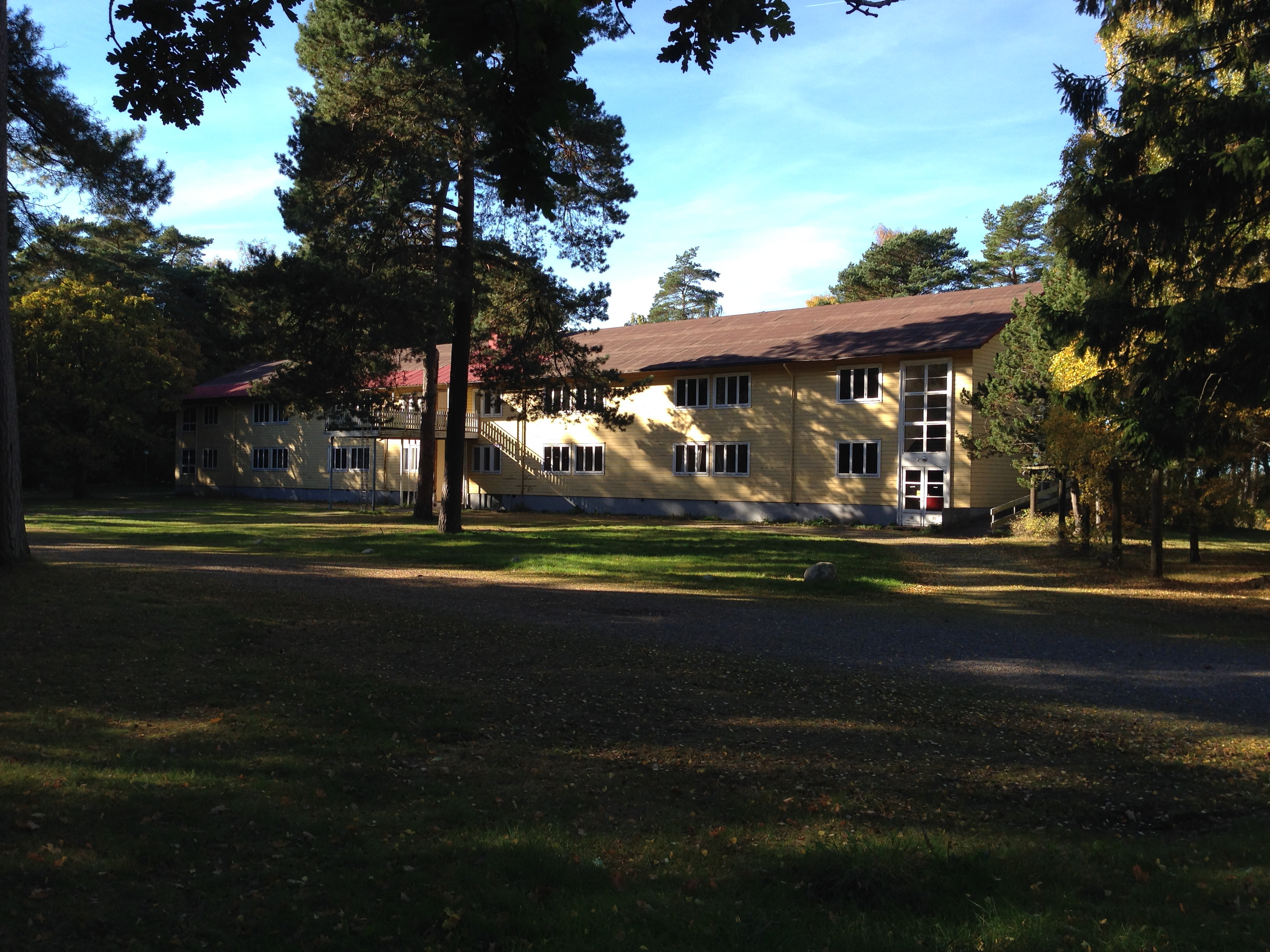 Hotel Riviera, Båstad